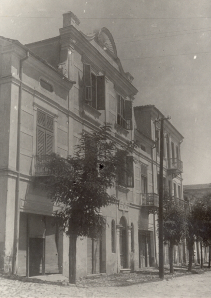 Congress of Manastir Building